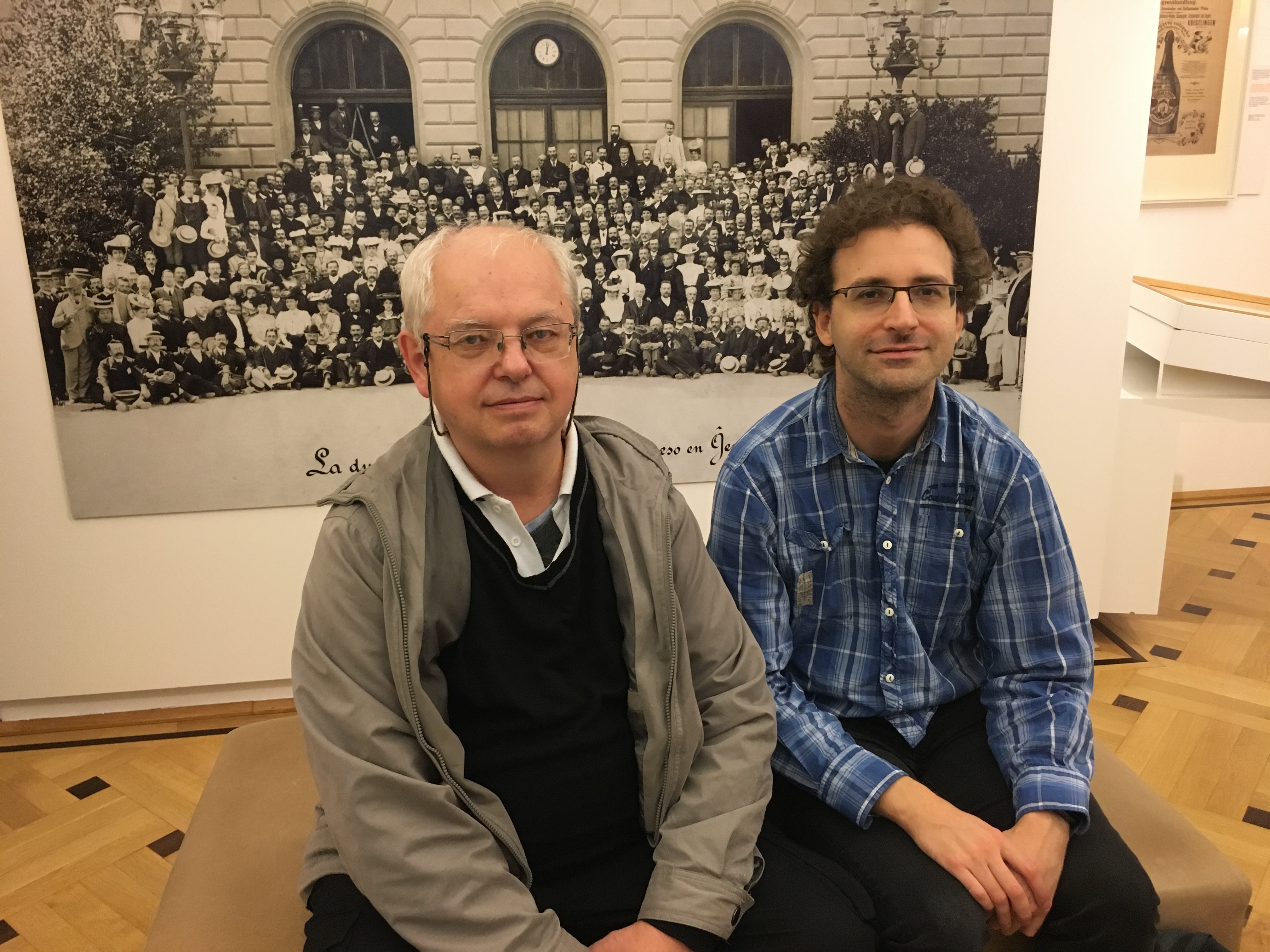 Miroslav Malovec and Chuck Smith in the Esperanto Museum and Collection of Planned Languages in Vienna on September 24th, 2017.